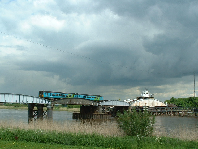 Swing Railway Bridge Over the River Ouse Between Hook and Skelton, East Riding of Yorkshire, England.Many ships have collided with the fixed sections of the bridge, sending them into the river